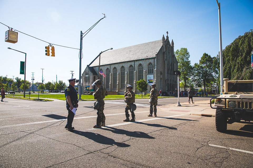 The Michigan National Guard assisted the City of Kalamazoo on June 2, 2020, by ensuring peace during a protest downtown. Michigan National Guard members will provide support to local civil authorities for as long as requested as a peaceful presence for the safety of Michigan communities. (Michigan National Guard photo by 2nd Lt. Ashley Goodwin)